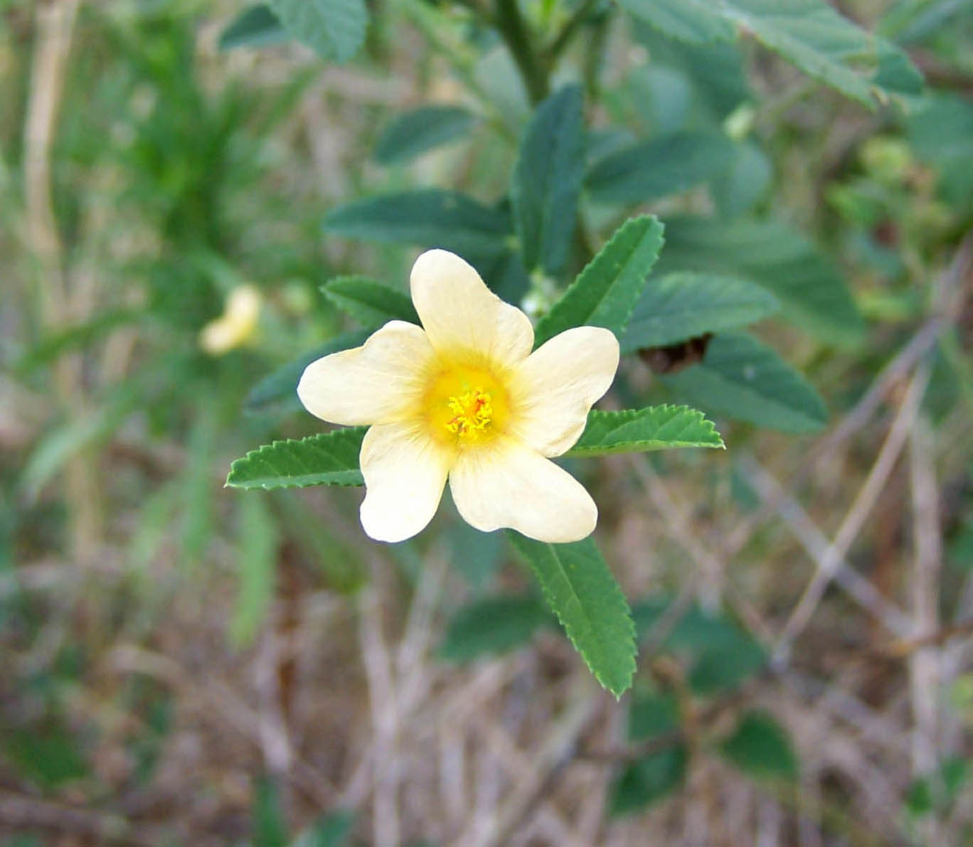 Photo taken by DanielCD in June 2005 near Houston, Texas (USA). Species is Sida rhombifolia.